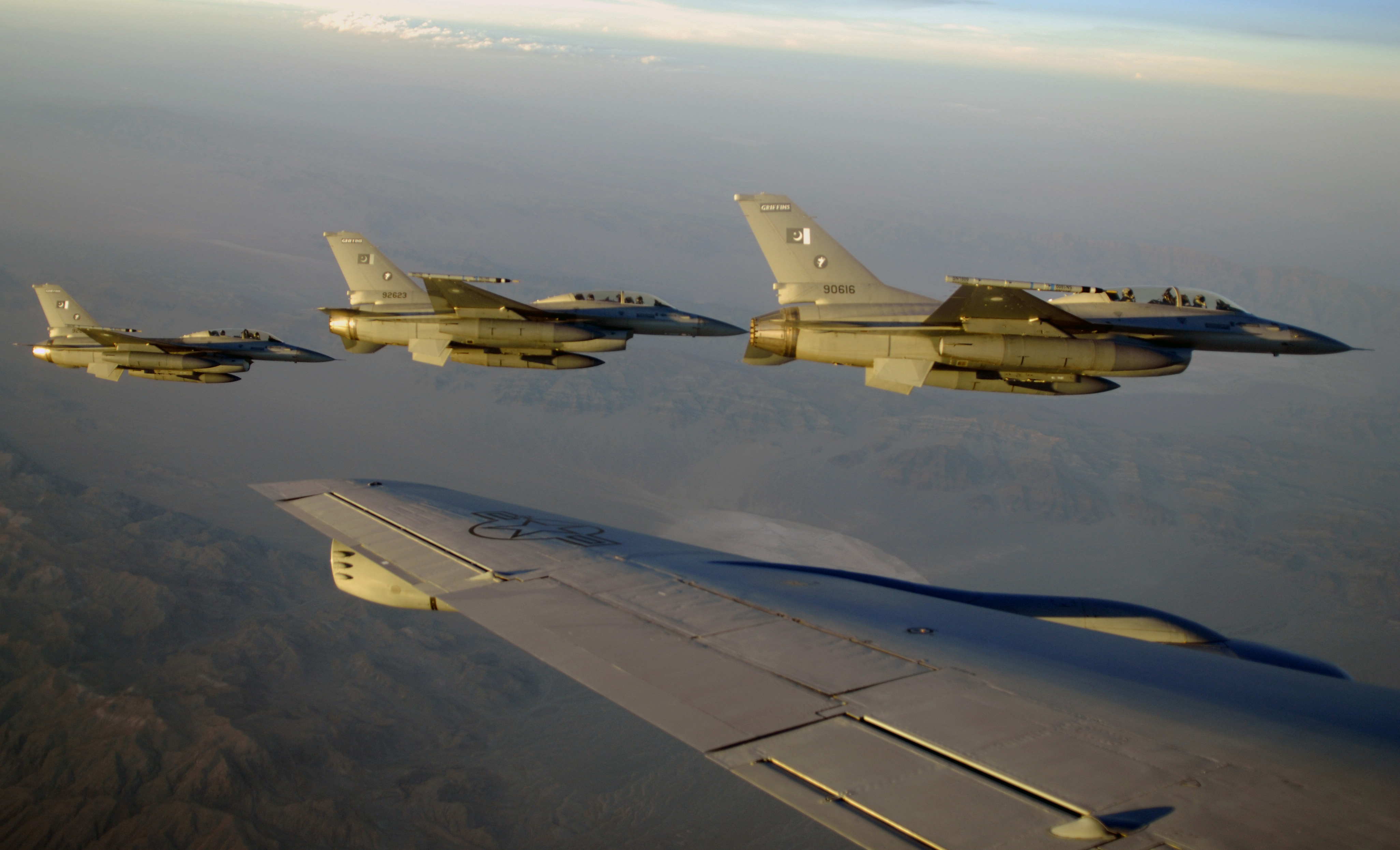 F-16B fighters of the Pakistan Air Force take part in Red Flag 2010.